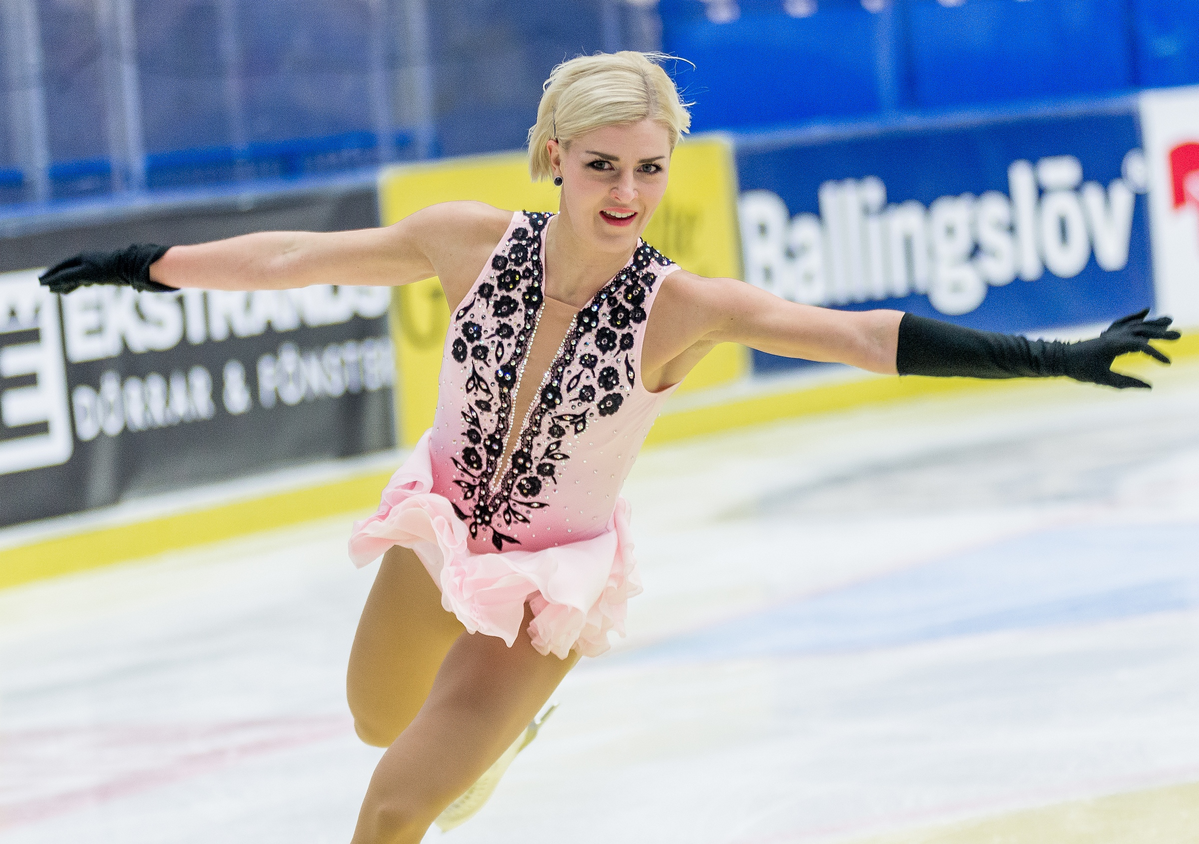 Swedish figure skater Viktoria Helgesson performing her short program at the 2013 Swedish figure skating champrionships at VIDA Arena in Växjö